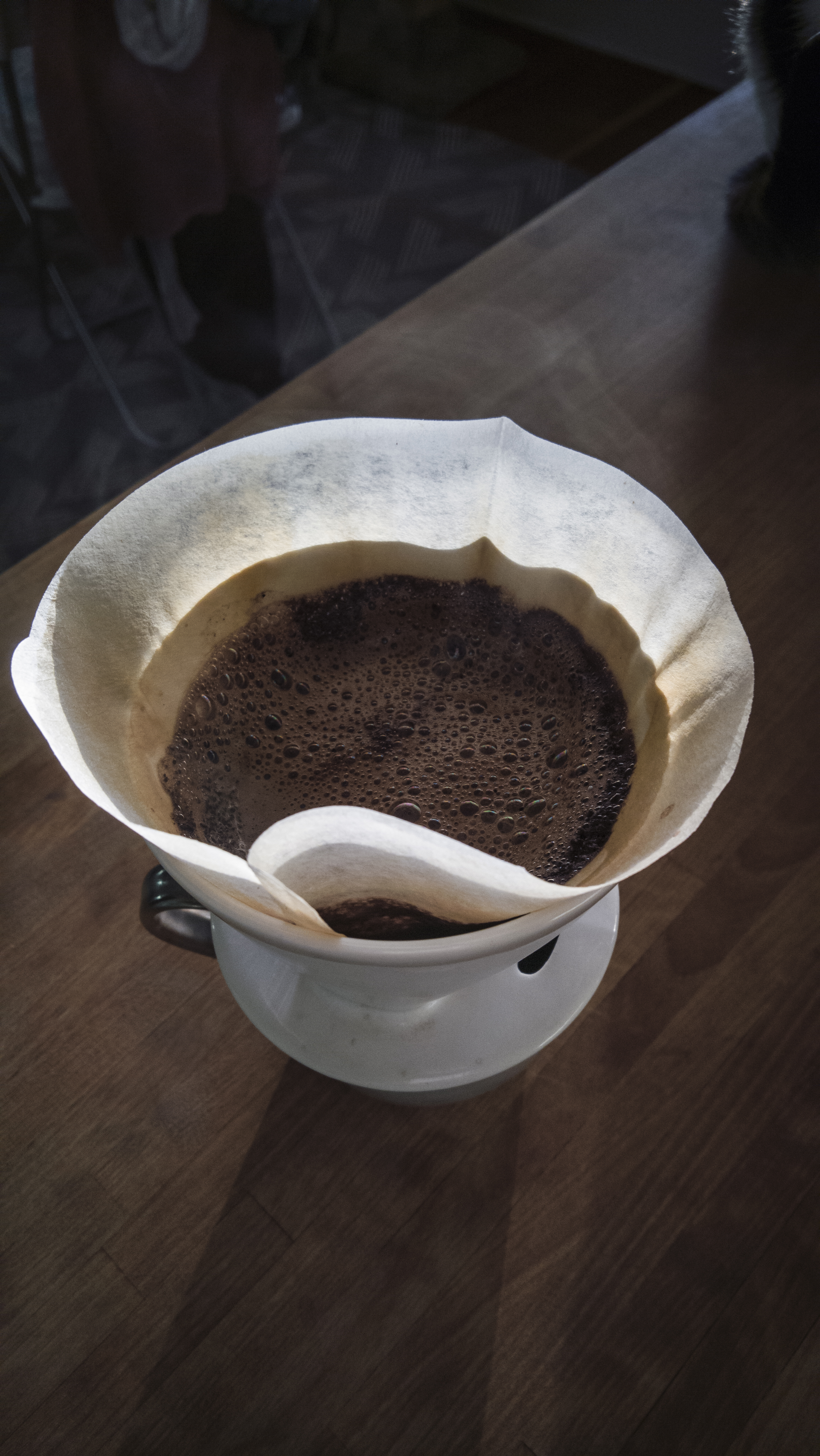 A slow drip cup of coffee being made on a countertop.